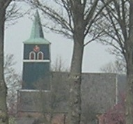 Church in Lambertschaag